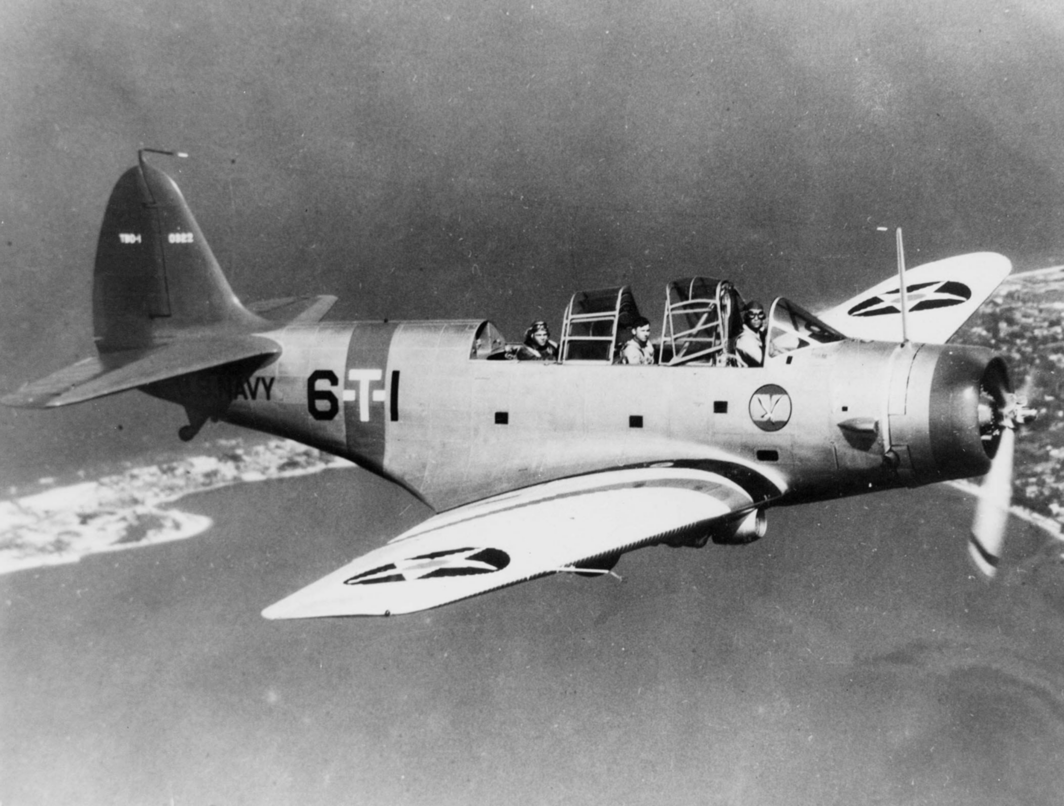 A U.S. Navy Douglas TBD-1 Devastator (BuNo 0322) of Torpedo Squadron Six (VT-6) pictured in flight, probably over Virginia (USA). Note the squadron insignia, a Great White Albatross, on the fuselage beneath the cockpit. Established as VT-8S in 1937, the squadron was redesignated VT-6 that same year. Accepting delivery of its first TBD-1 aircraft in 1938, the squadron operated from USS Enterprise (CV-6) until after the Battle of Midway in June 1942. The TBD-1 0322 ditched after stalling on takeoff from the Enterprise on 10 March 1939. The crew could be rescued uninjured.